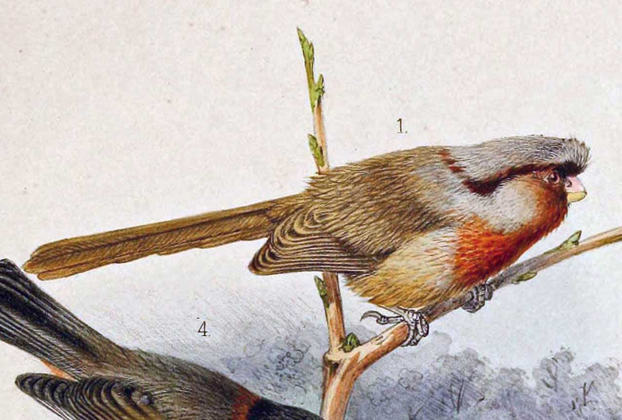 « Suthora przewalskii » = Sinosuthora przewalskii (Przevalski's parrotbill)